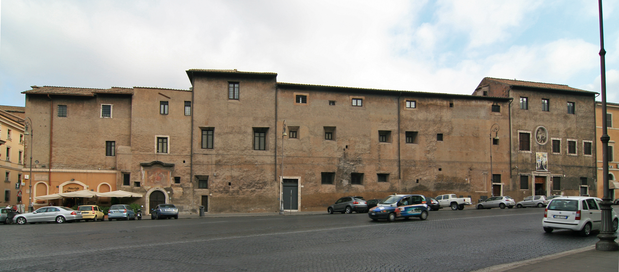 Monastery of Tor de'Specchi, Rome